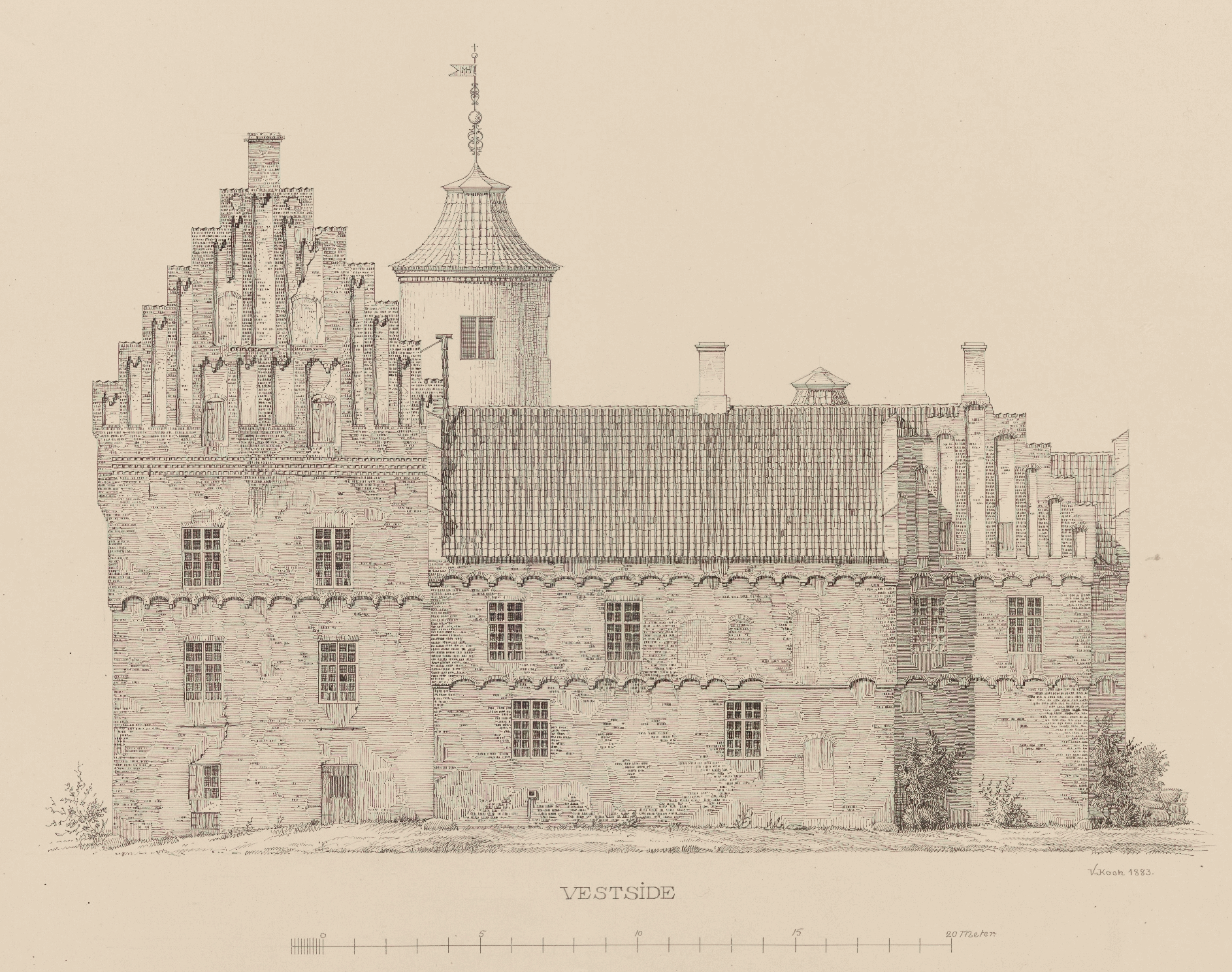 This is plate 10 from the book Danske Herreborge fra det 16de Aarhundrede (Danish Castles from the 16th Century), published in 1904. Some text and blank space has been cropped to give a better view of the building.